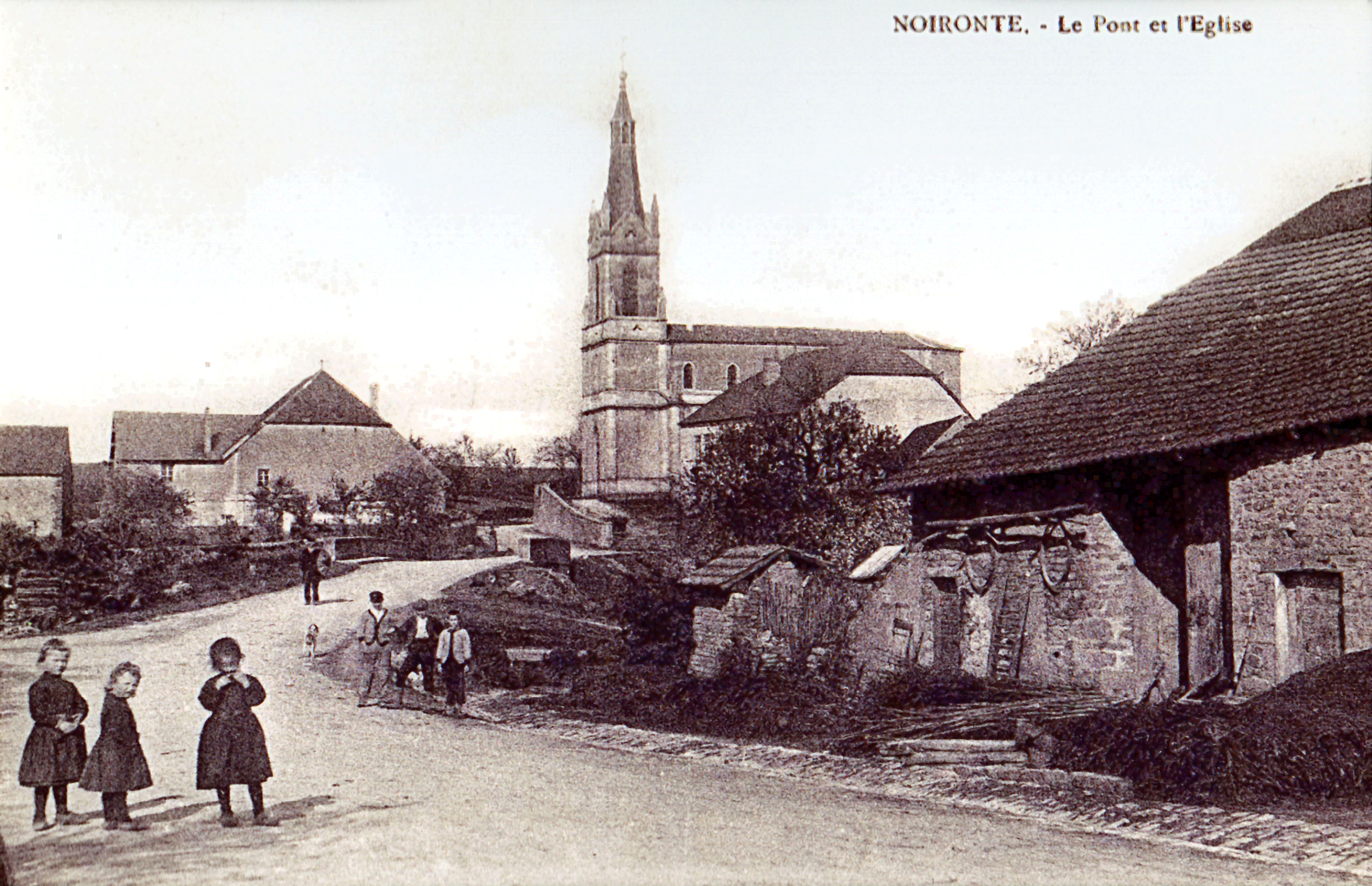 Old postcard reproducing a photography of the Grande Rue (main street) of the french village of Noironte, in the Doubs departement, circa 1910.